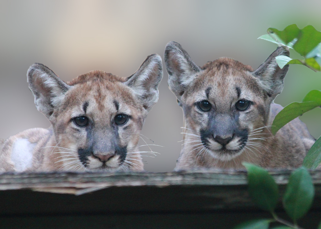 These two young Florida panthers were raised at White Oak and eventually released back into the wild after their mother was found dead in Collier County, Florida.